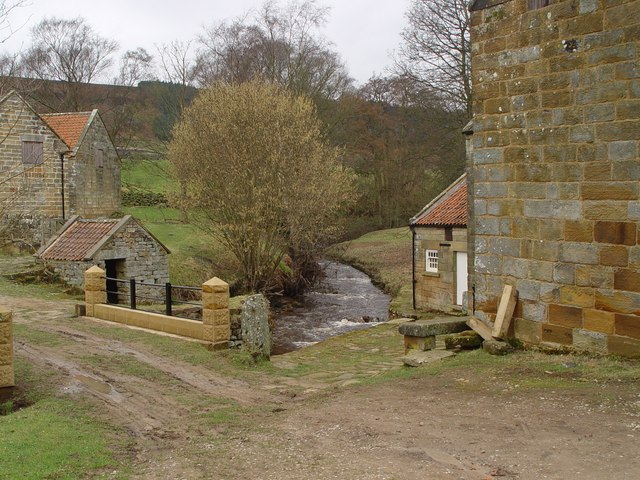 Hodge Beck, Bransdale Mill Noting the newly renovated bridge.